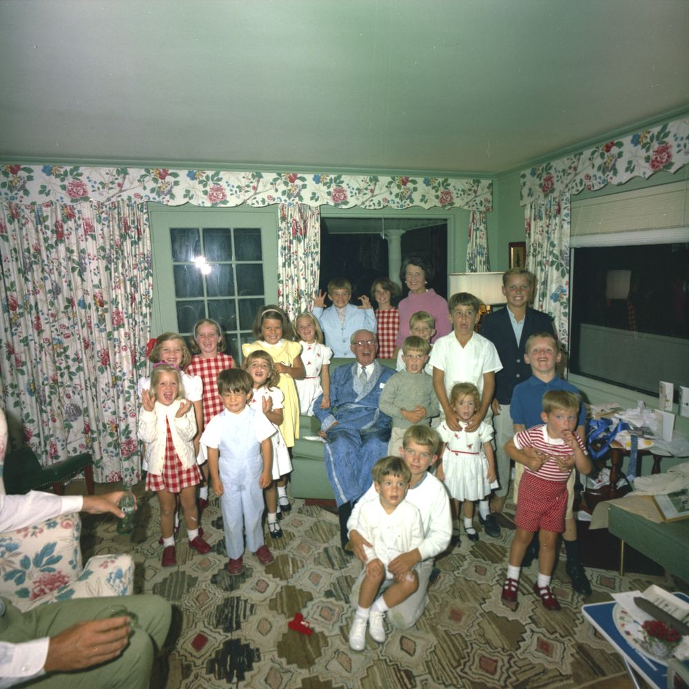 ST-C289-7-63 7 September 1963; Joseph P. Kennedy, Sr. celebrating his 75th birthday with grandchildren in Hyannis port. Photo includes: (front row) John F. Kennedy, Jr., Robert F. Kennedy, Jr., (second row left) Kerry Kennedy, Timothy Shriver, (second row, right) Robin Lawford, William Kennedy Shriver, (third row, left) Caroline Kennedy, Victoria Lawford, (third row, right) Michael Kennedy, Robert Shriver, Steven Smith, Jr., (left fourth row) Courtney Kennedy, Maria Shriver, Joseph P. Kennedy, Sr., David Kennedy, Joseph P. Kennedy III, (left, fifth row) Sidney Lawford, Christopher Lawford, Kathleen Kennedy, and Rose Kennedy. Hyannis Port, Massachusetts.Please credit, "Cecil Stoughton. White house Photographs. John F. Kennedy Presidential Library and Museum, Boston"